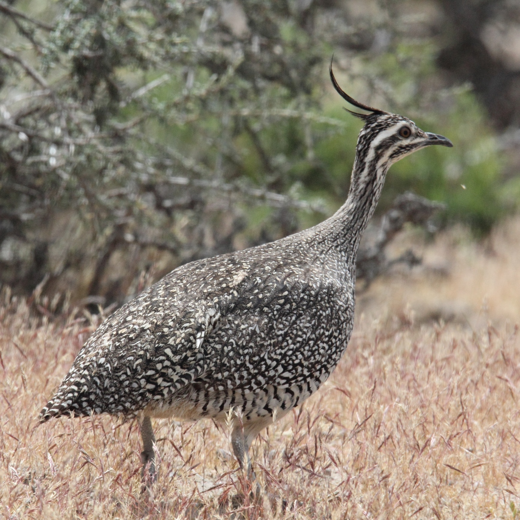 Elegant Crested Tinamou (Eudromia elegans)